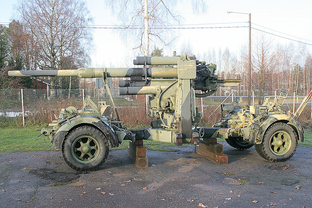 A German 88 mm anti-aircraft cannon (of year) 37 in the anti-aircraft museum of Finland in Hyrylä of Tuusula. 90 cannons were received and used by the Finnish army.